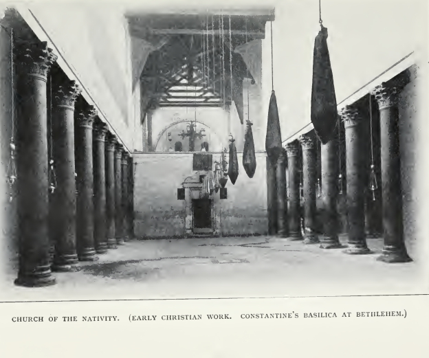 Nativity 1913